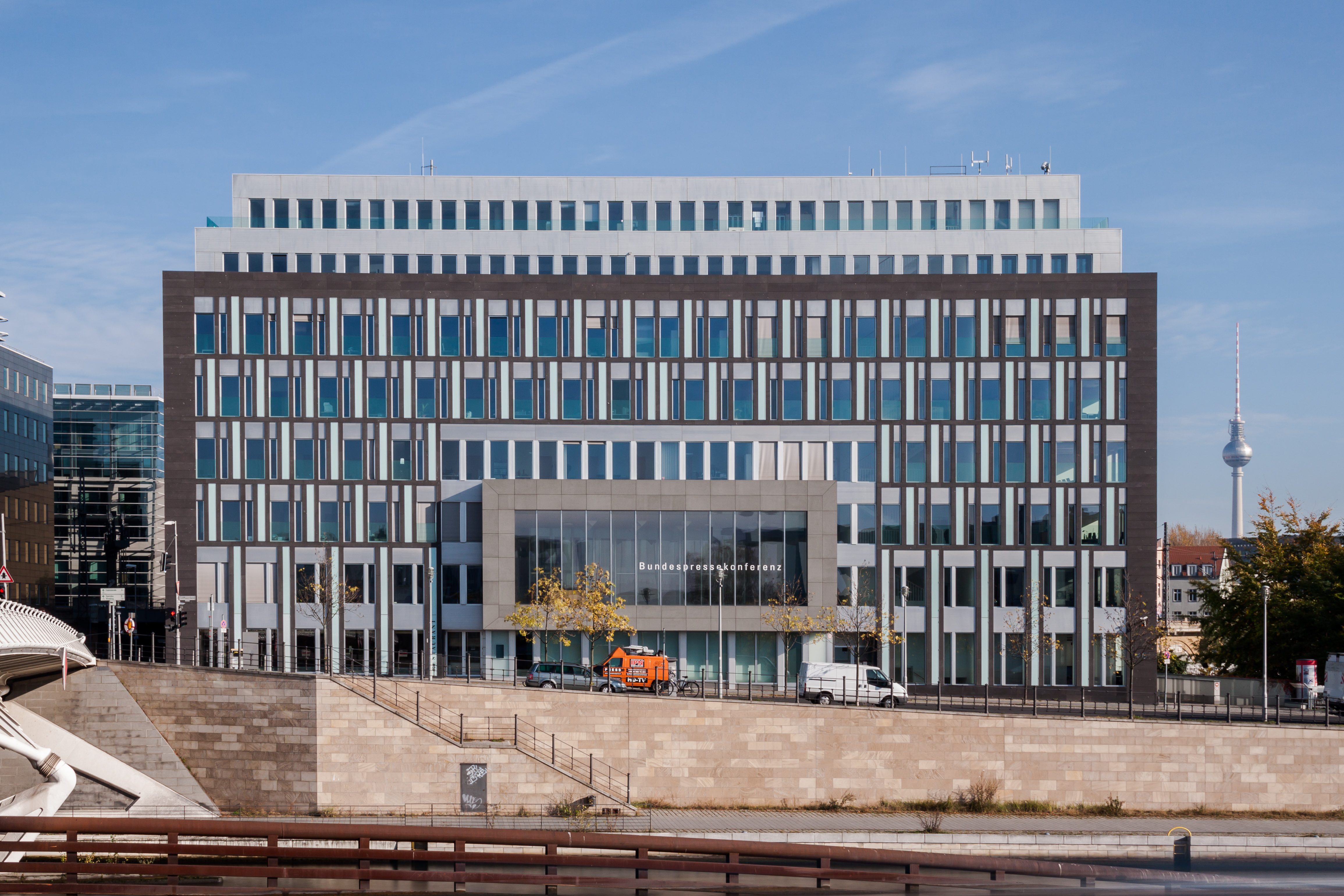 The house of the federal press conference in Berlin is located at the Kronprinzenbrücke towards the parliament buildings in Spreebogenpark. It was built by the architects Nalbach + Nalbach.